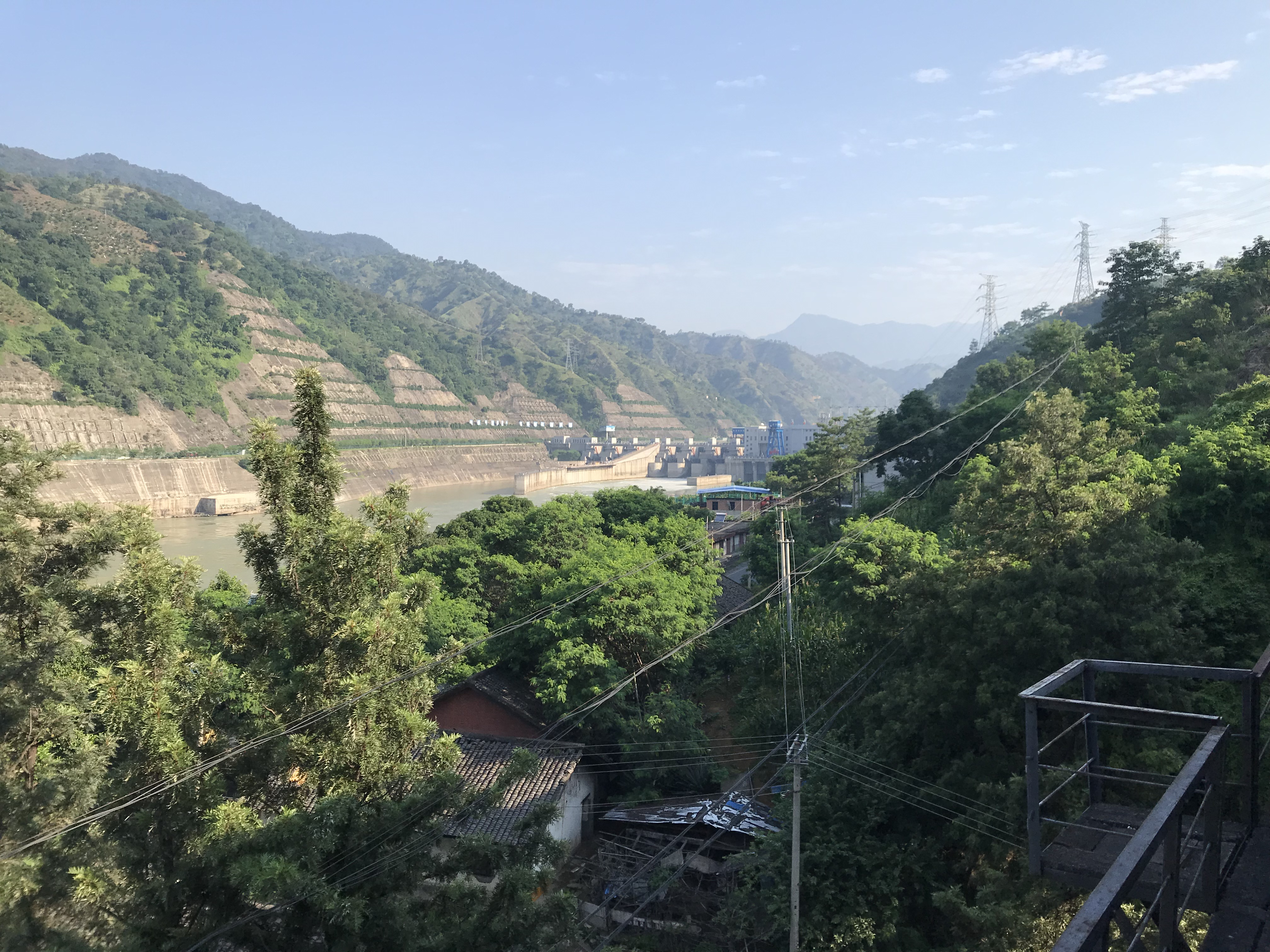 201908 Tongzilin Dam on Yalong River